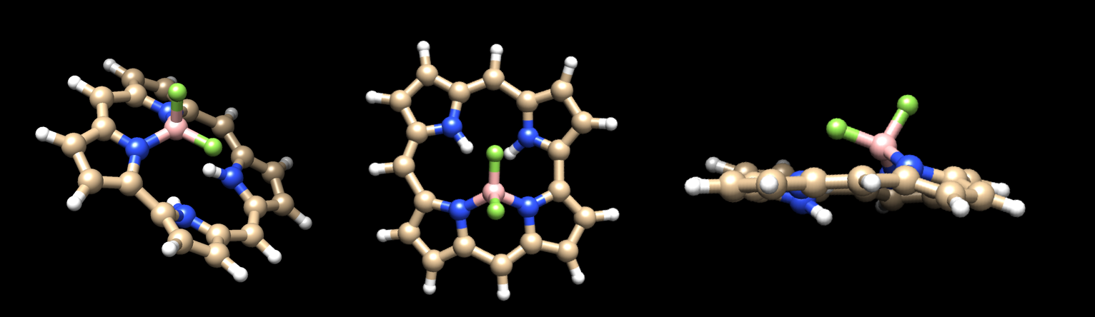 Chemical structure of Boron porphyrins johbrbr